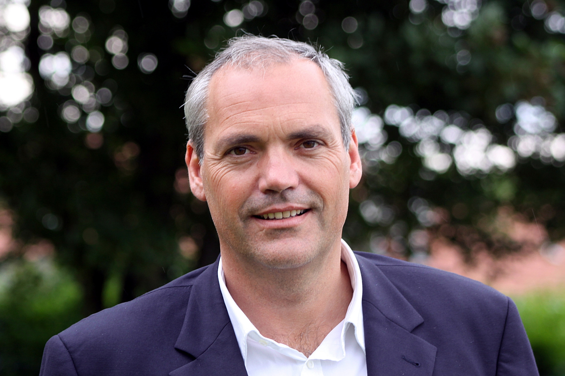 Thomas Kronsteiner, Manager of SV Horn